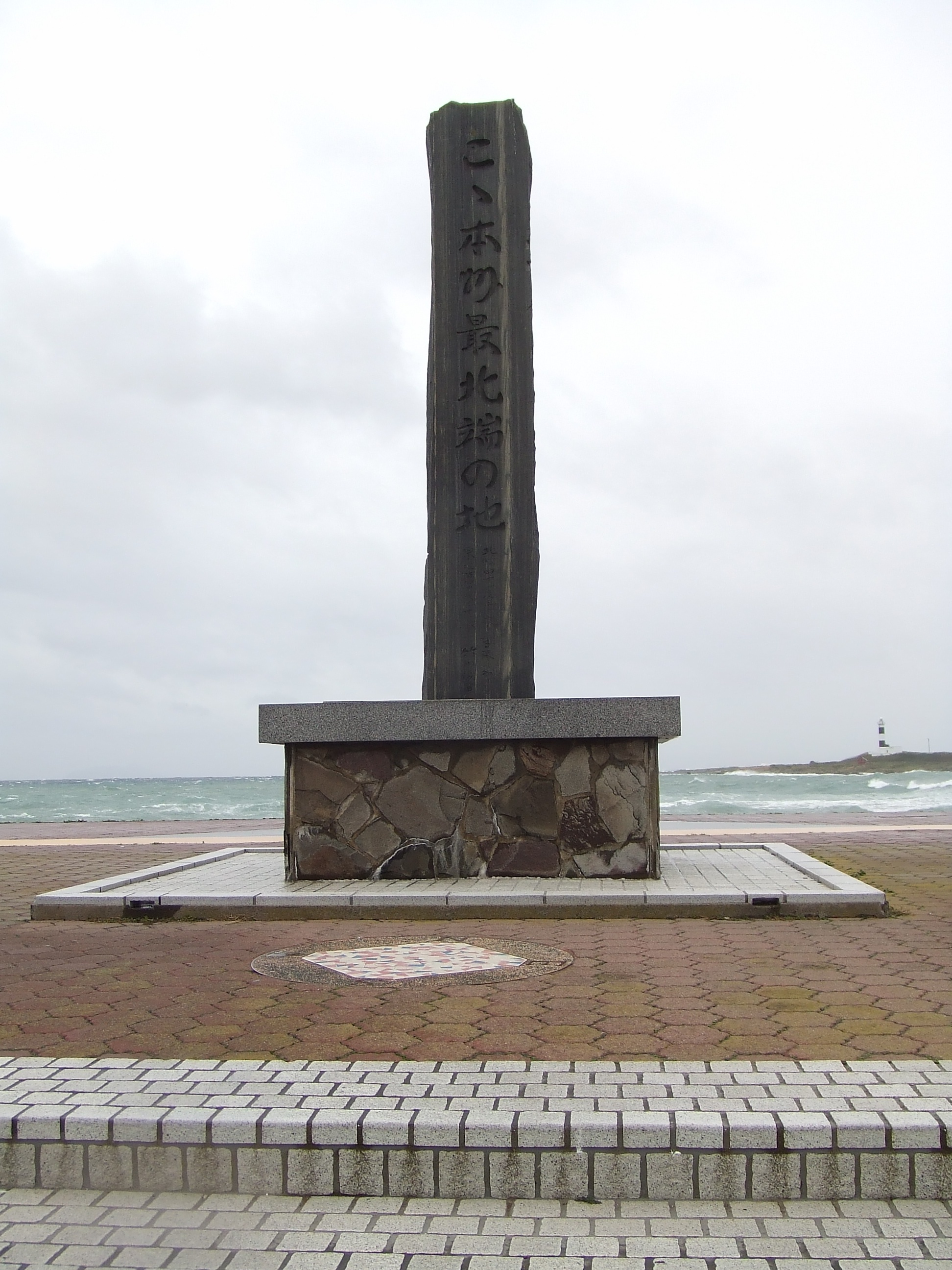 Monument of the northernmost point of Honshu, Japan